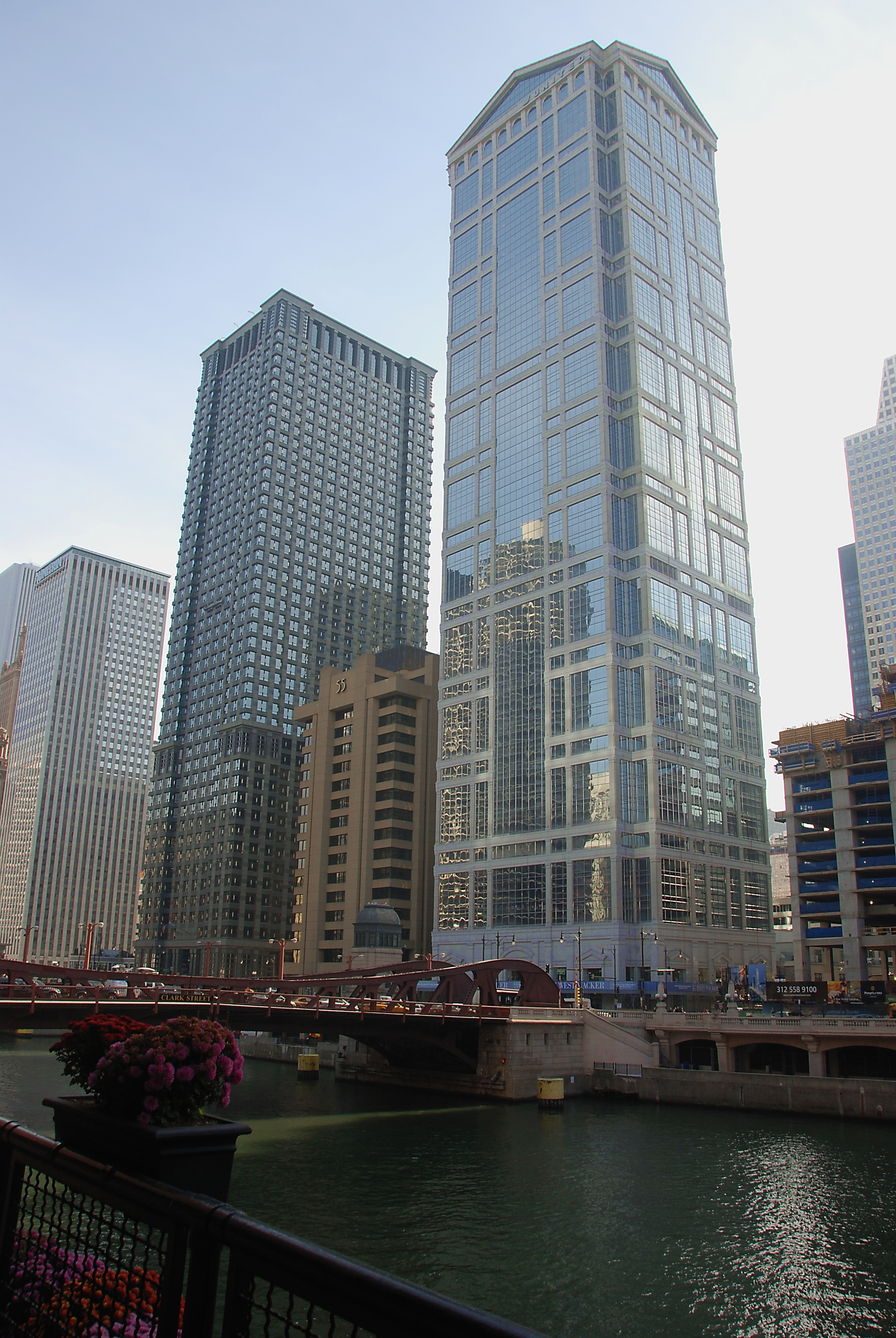 Chicago river, showing buildings on West Wacker Drive. On the foreground, the buiding by Ricard Bofill Arquitectura, 1990-92